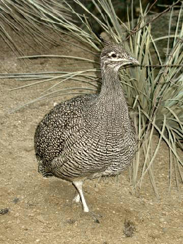 Elegant Crested-tinamou. Location: Bronx Zoo, New York